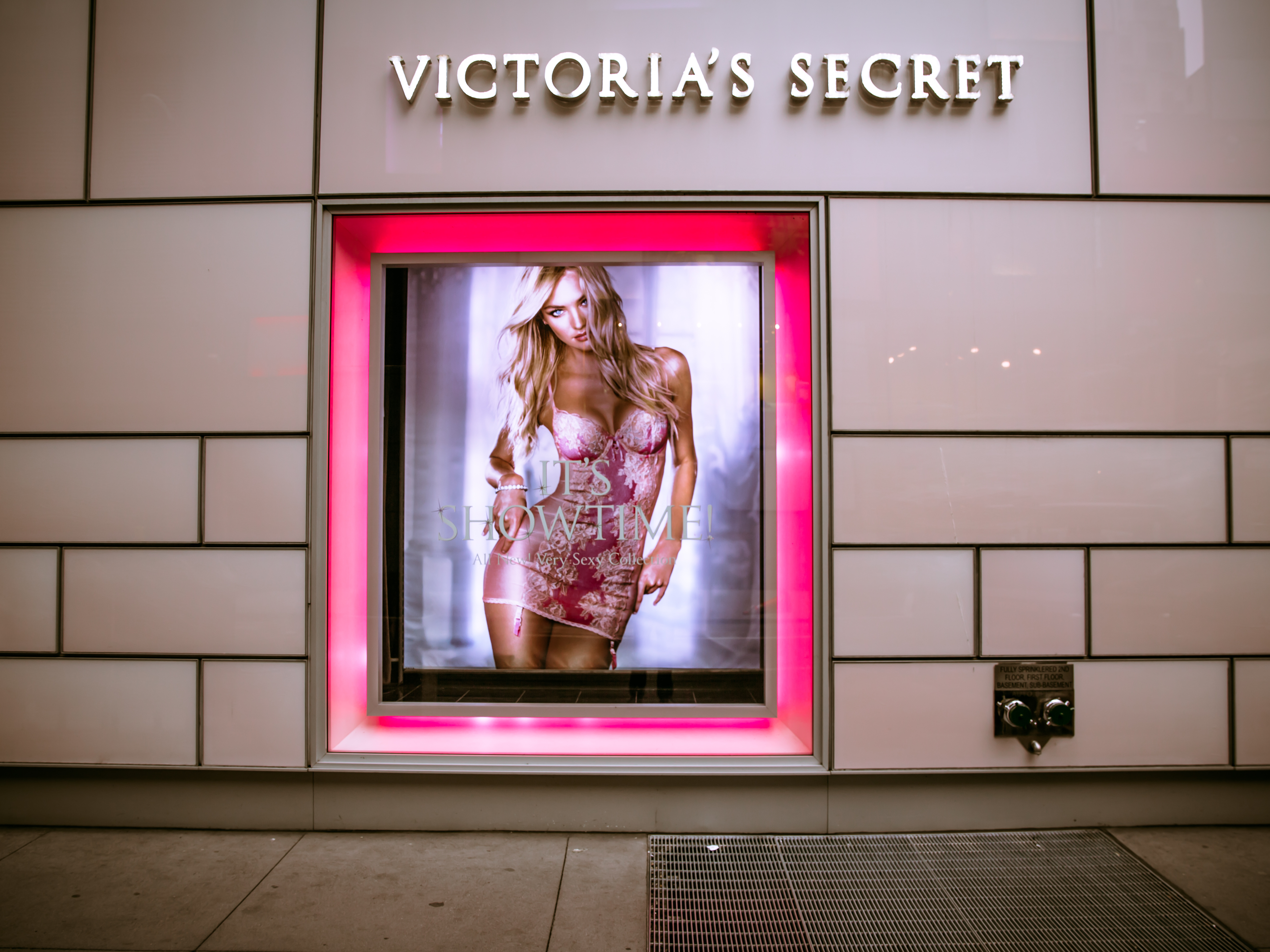 Victoria's Secret Store, 722 Lexington Ave, New York, NY 10022, USA - Dec 2012